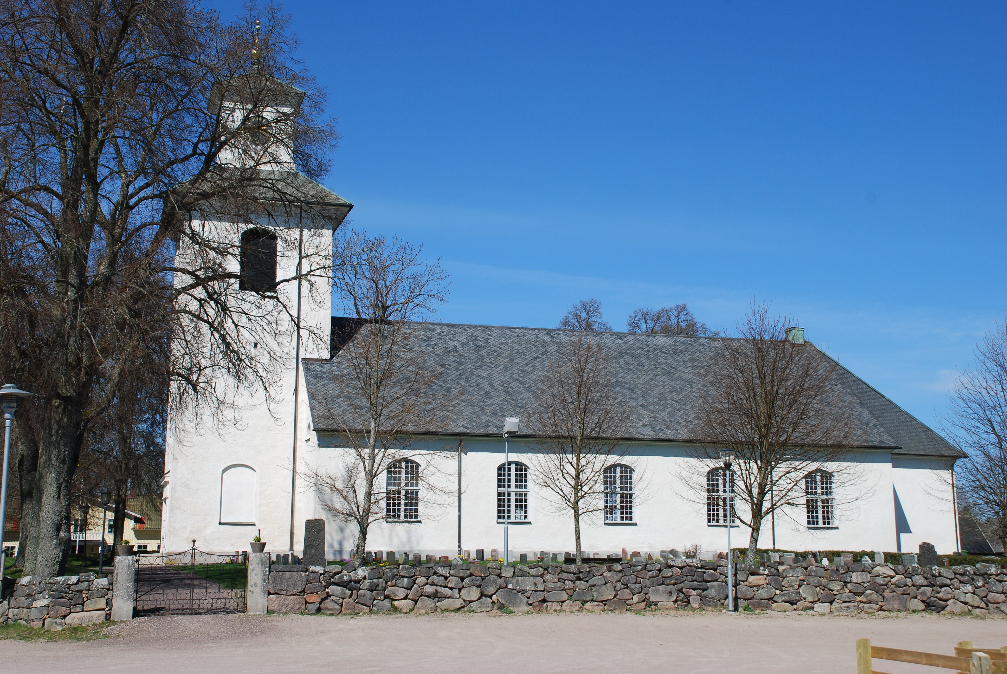 The church of Värends Nöbbele